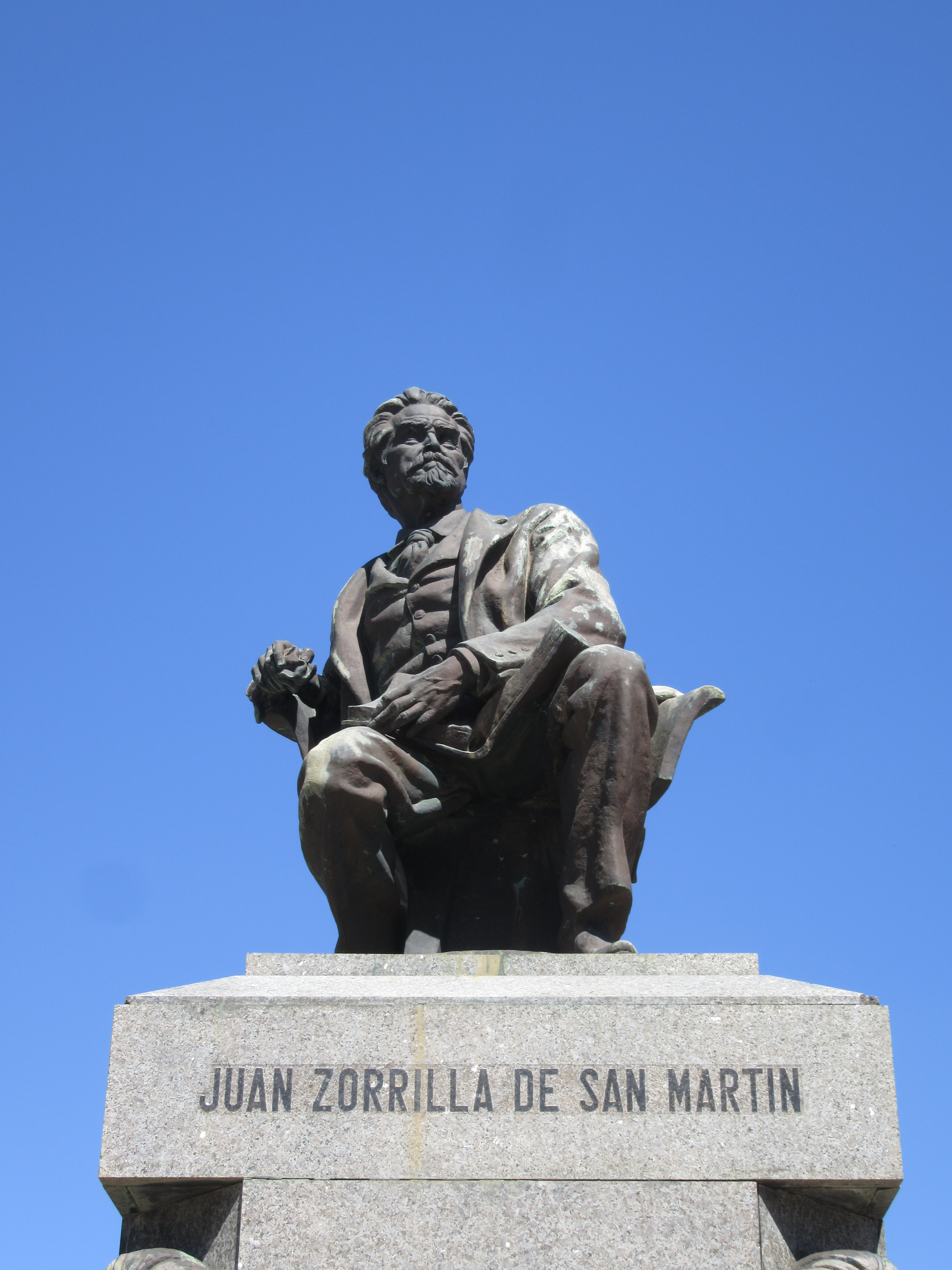 Montevideo